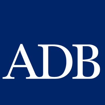 Asian Development Bank Logo Block